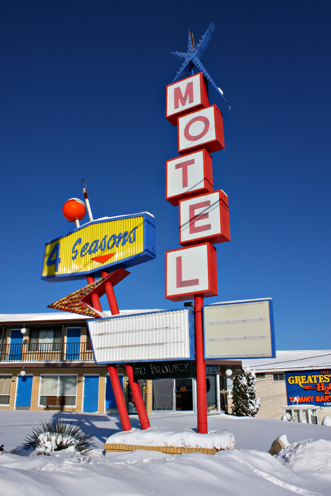 The 4 Seasons Motel in the Wisconsin Dells, like most mom and pop motels there, is closed for the season.